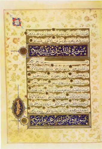 برگی از قرآن کريم به خط یاقوت مستعصمی مورخ 681 هجری A Highly Important Qur'an by the Scribe Yaqut al-Musta'simi and Dated 681 A. H./1282 A. D. Baghdad